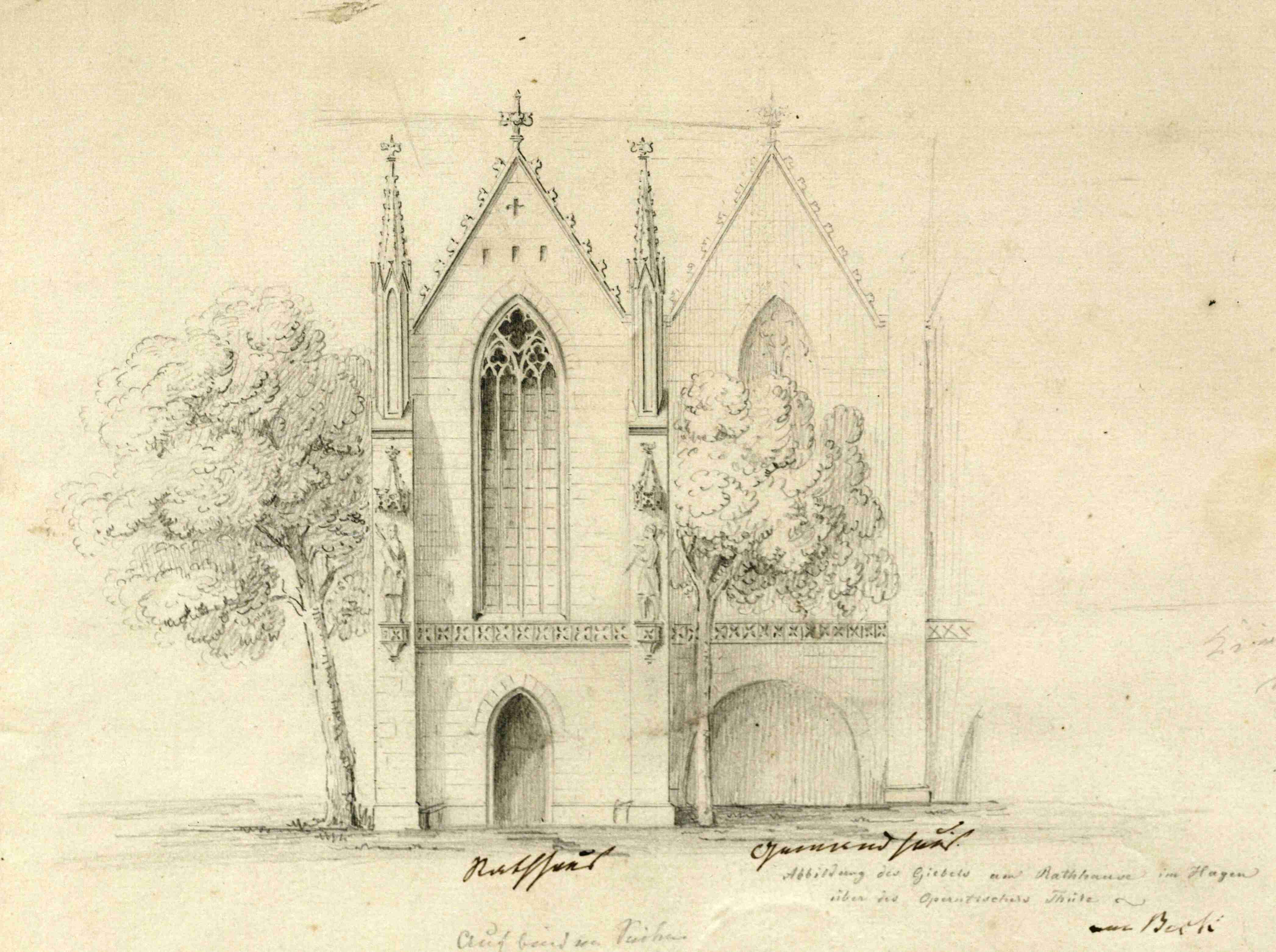 Braunschweig, Germany: Detail of Hagen Town Hall.